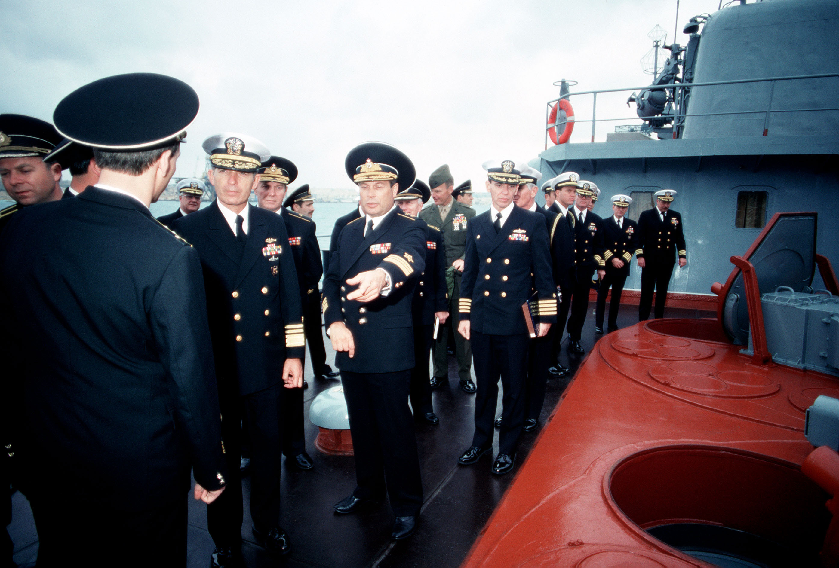 Soviet and United States naval officers visit aboard the Soviet guided missile cruiser, SLAVA, which is in port in preparation for the summit meeting between President George H.W. Bush and Soviet Chairman Mikhail Gorbachev to be held on December 2-3.